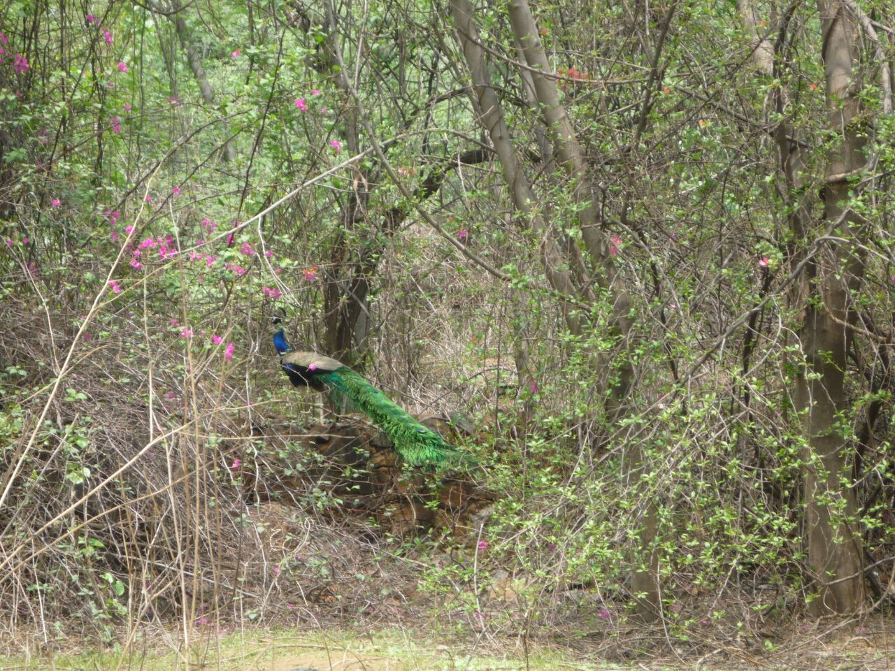 Image shows a peacock in its habitat. Place of capture: Delhi Ridge(Jhandewalan)